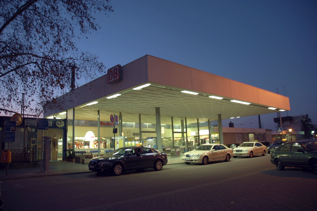 The main train station of Frankenthal (Palatinate)